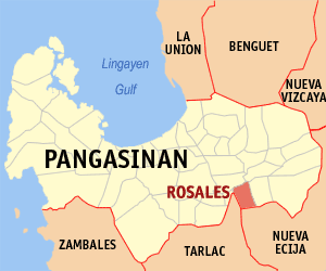 Map of Pangasinan showing the location of Rosales